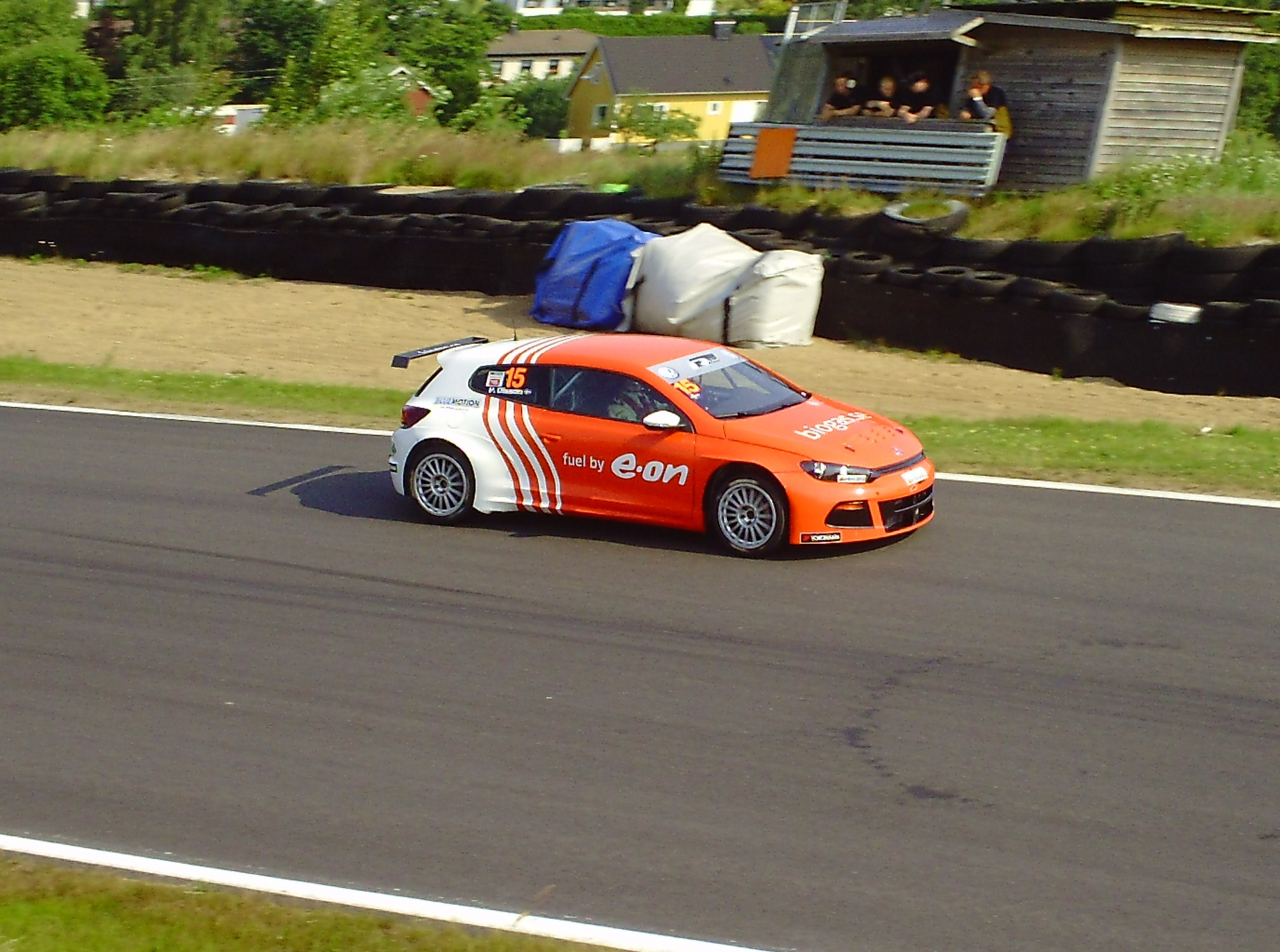 Patrik Olsson in a Volkswagen Scirocco Biogas in Swedish Touring Car Championship at Falkenbergs Motorbana 2010.